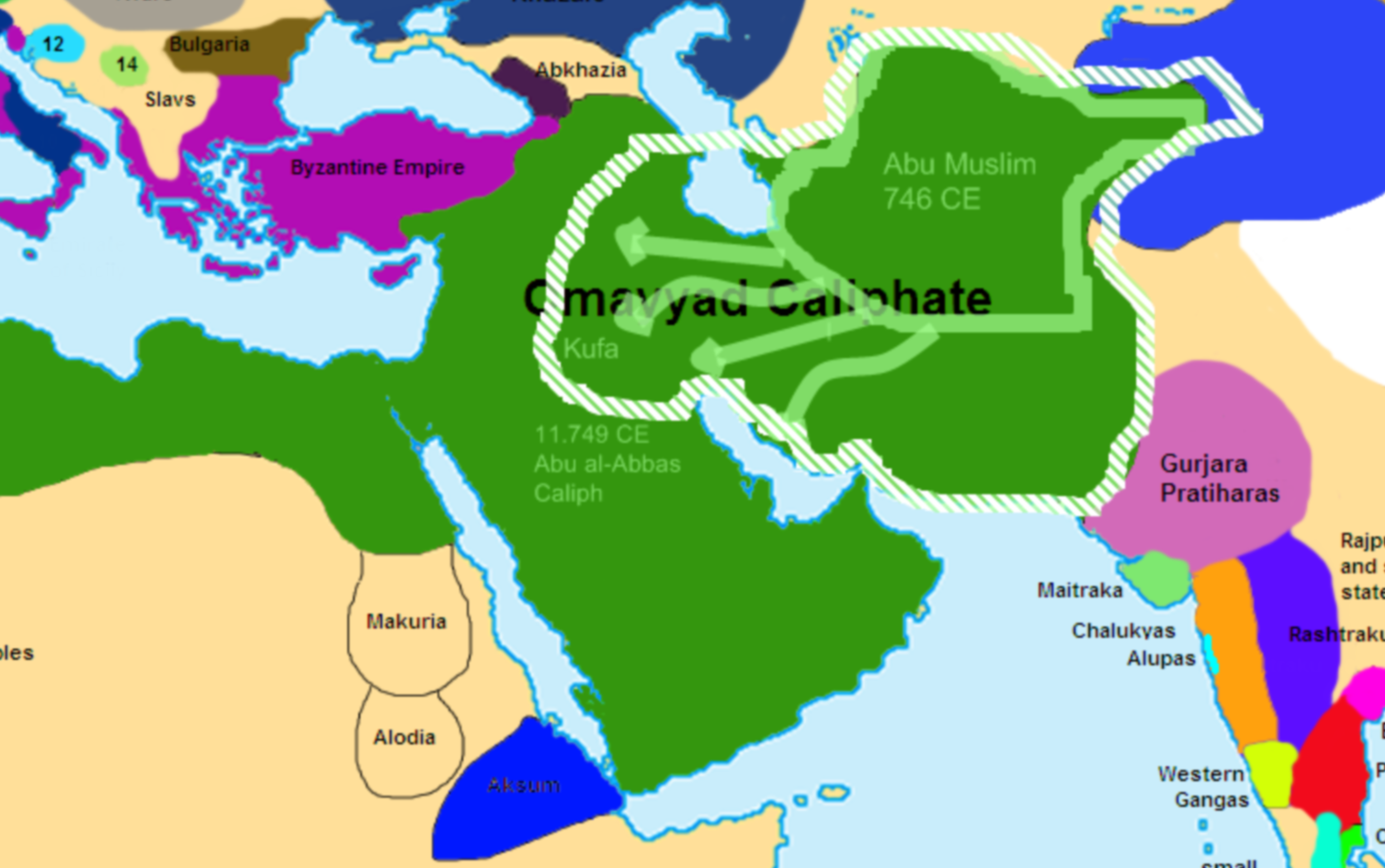 THE ABBASSID REVOLT against the Umayyads